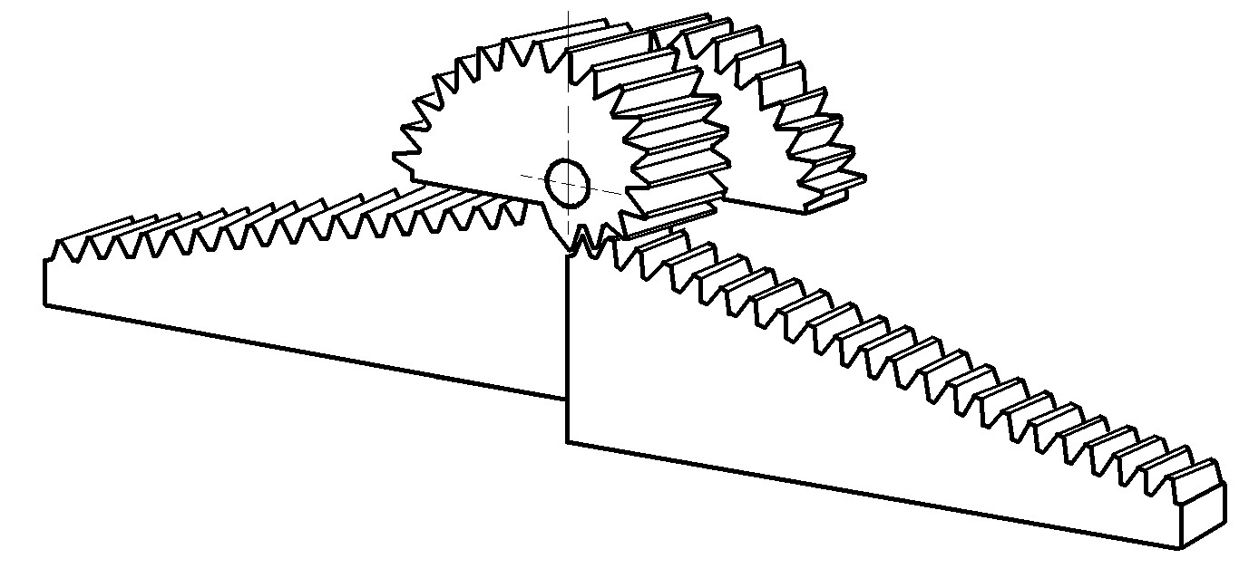 Function of PSS-Steering